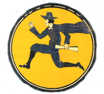 118th Observation Squadron - Emblem